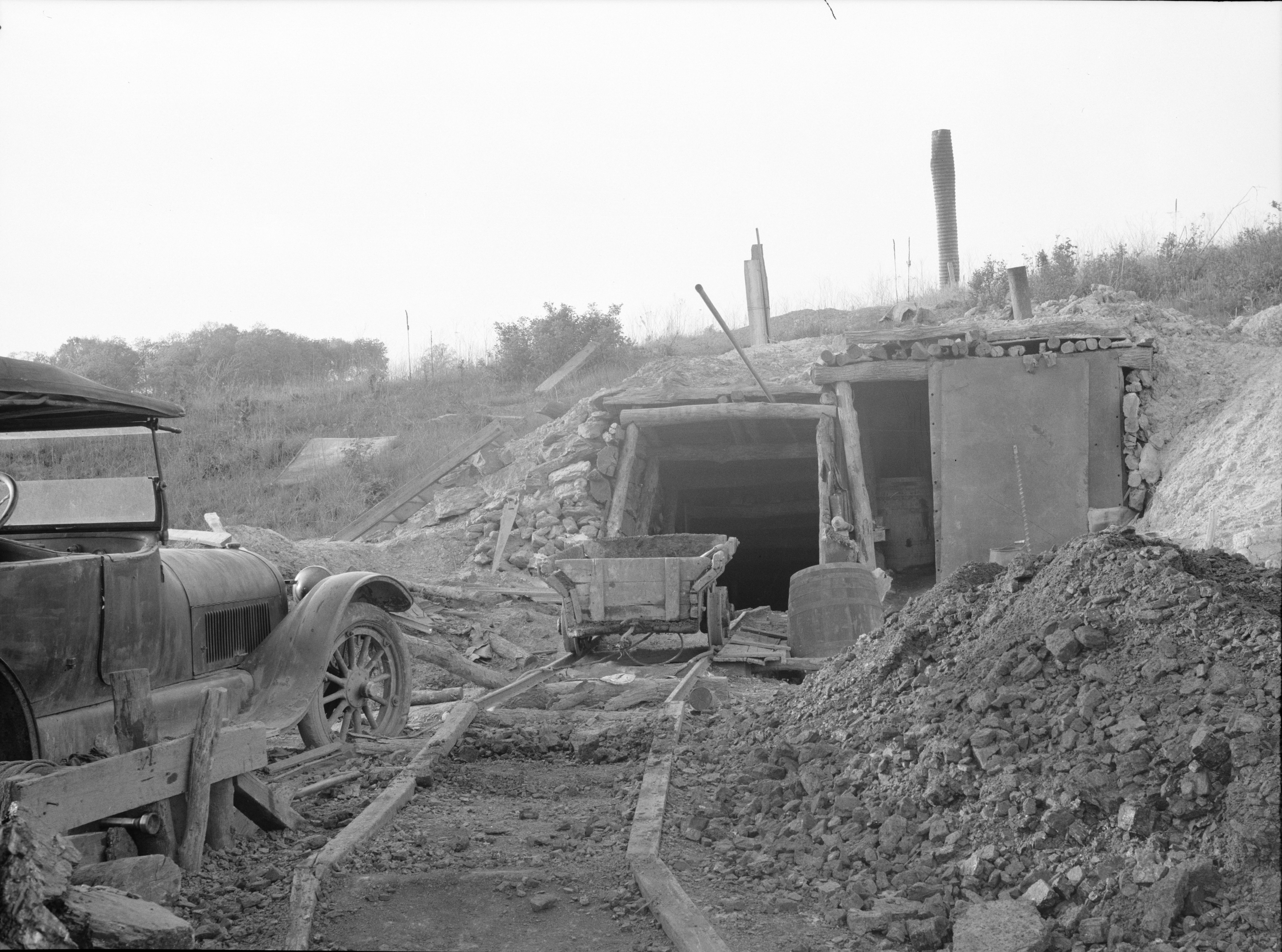 A coal mine in southern Iowa. Near Ottumwa, off U.S. Highway No. 34.